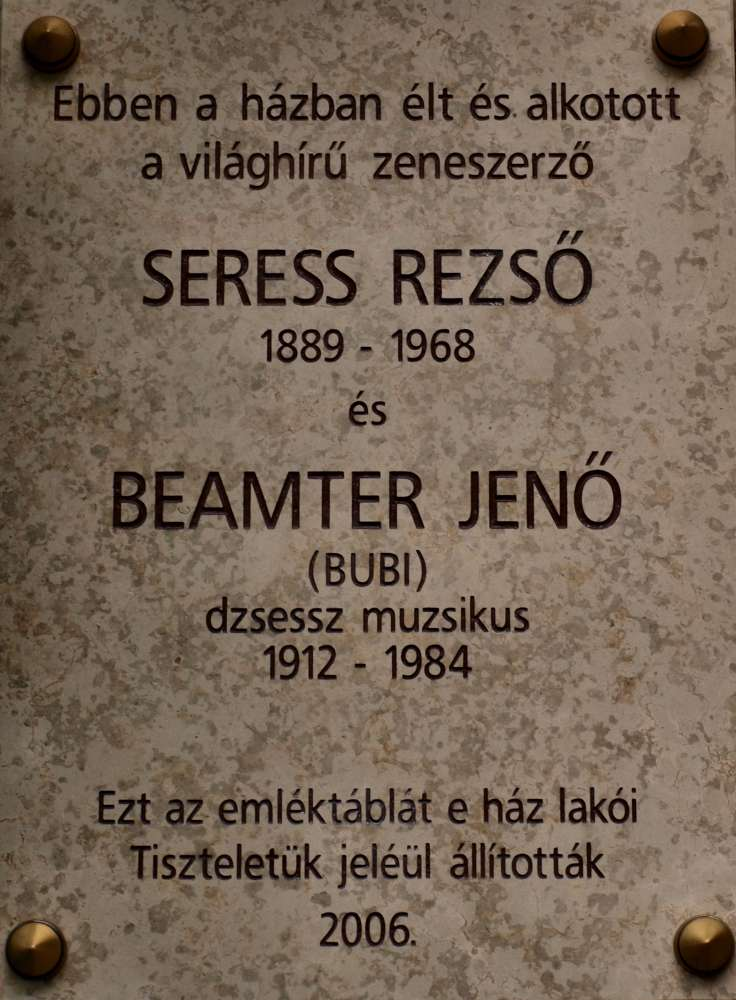 Rezső Seress and Jenő Beamter commemorative plaque in Budapest District VII, Dob Street No 46/b